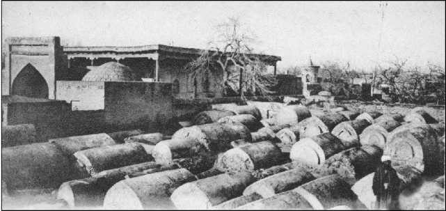 This is old Bukhara photo, Mausoleum of Ishan Imlo